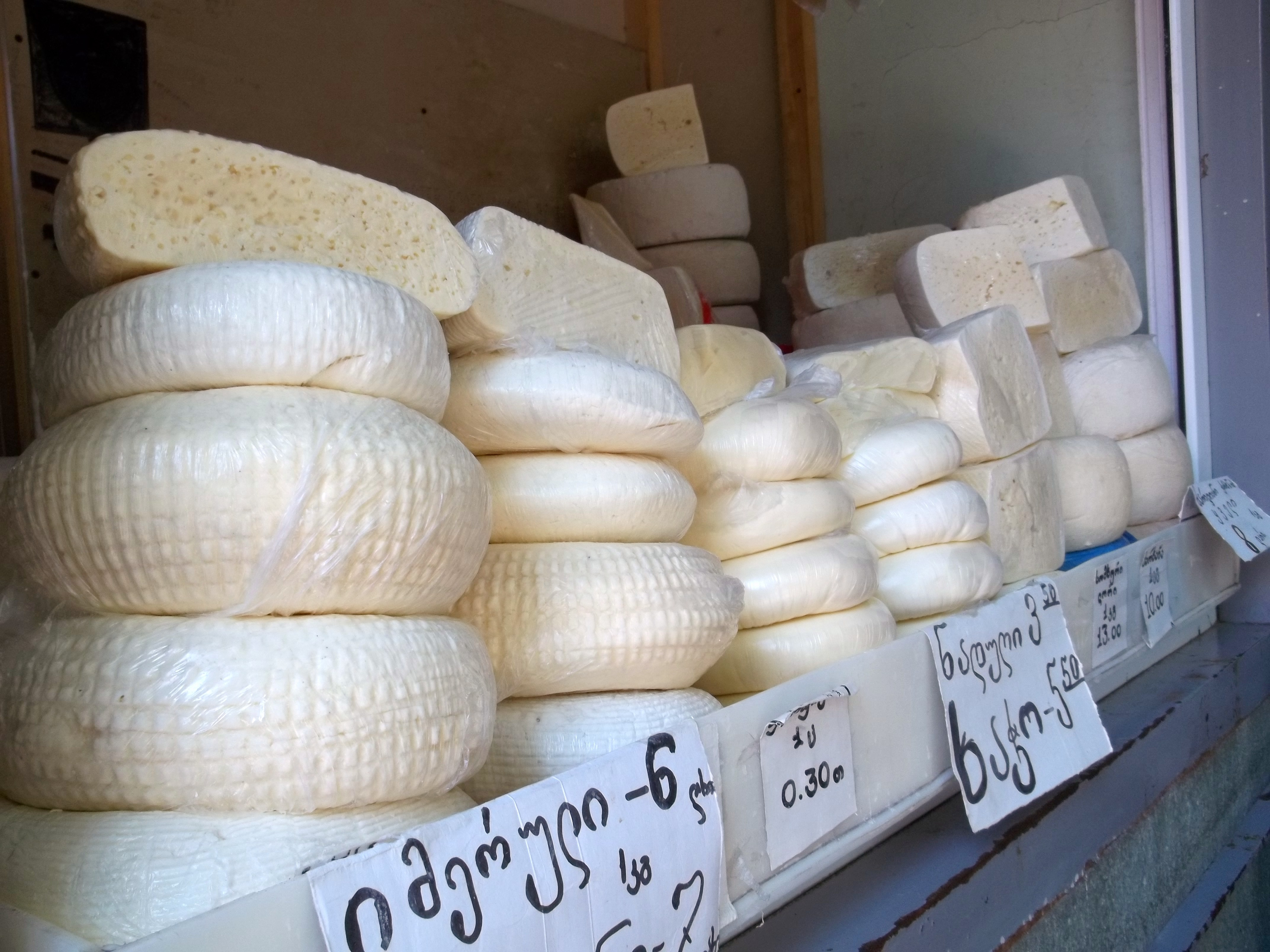 Imeruli (Imeretian) cheese